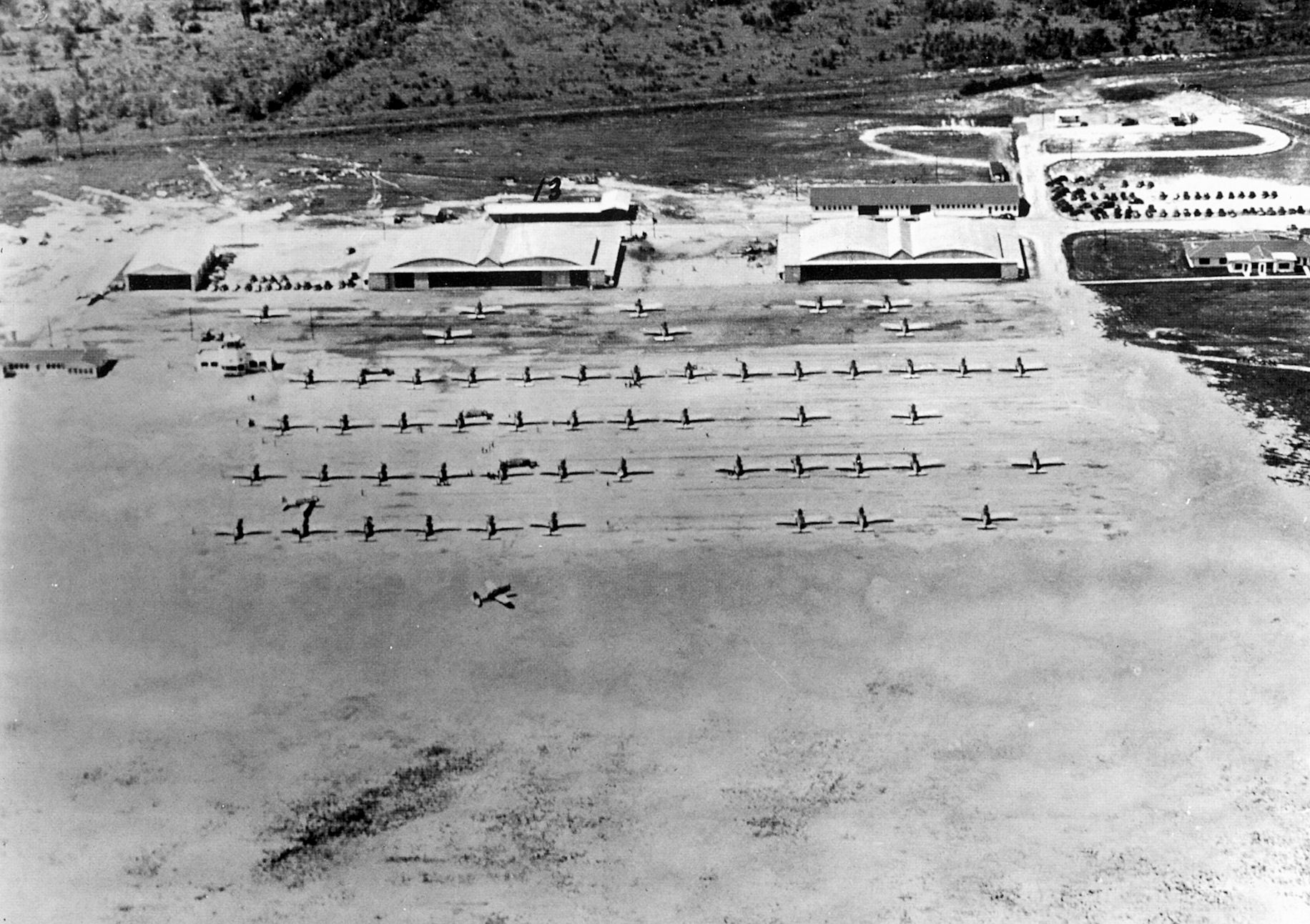 Bush Field (now Augusta Regional Airport) Georgia, flightline, 1943